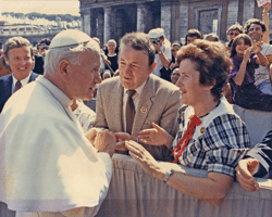 Peter and Bridie Murphy meet Pope John Paul II in Rome